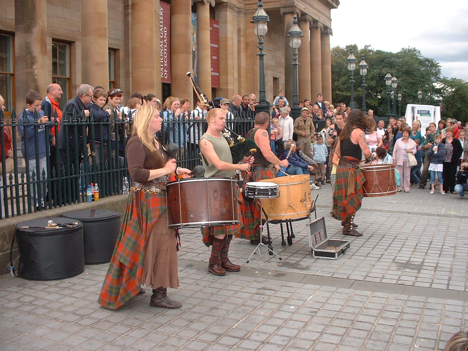 Picture of Celtic Battle Music band Albannach live at the Edinburgh Festival.